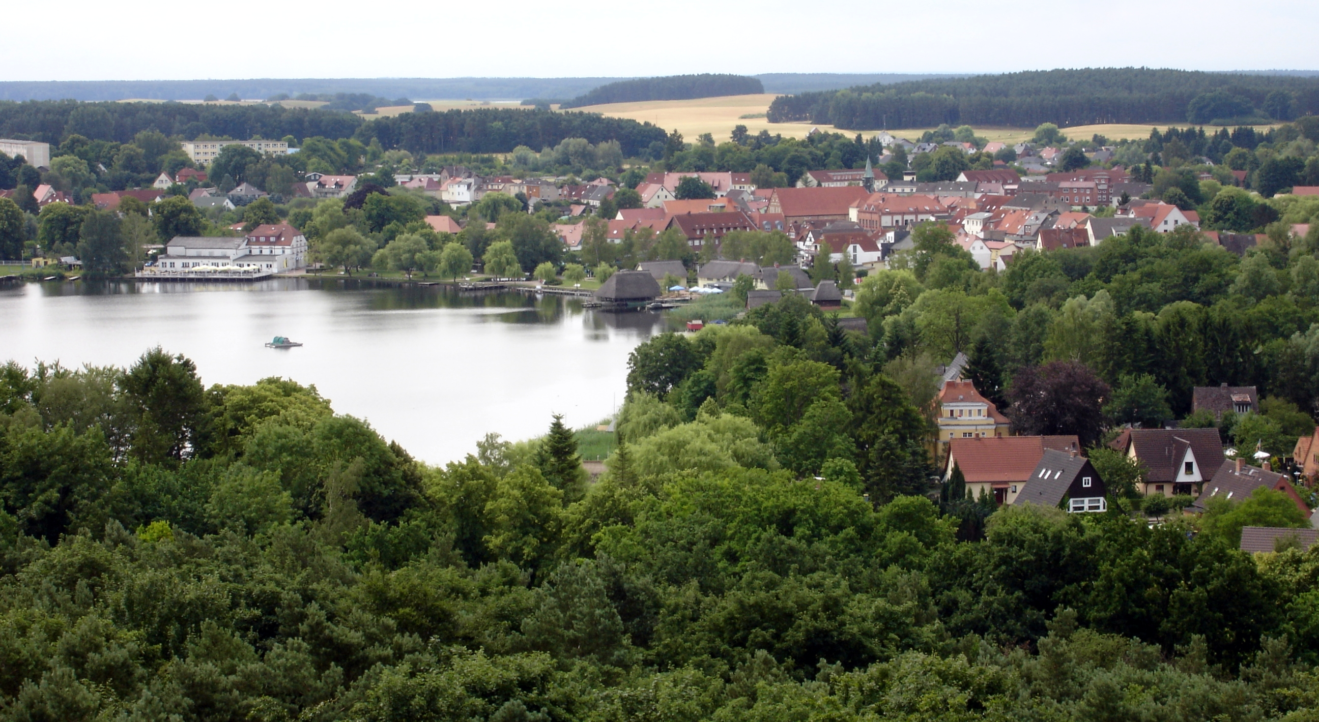 JörnbergKrakow am See, Germany, Sight from the observation tower on the hill Jörnberg